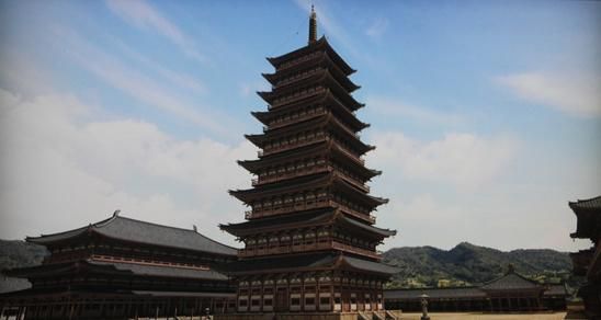 A photo of the nine story pagoda of Hwangryongsa